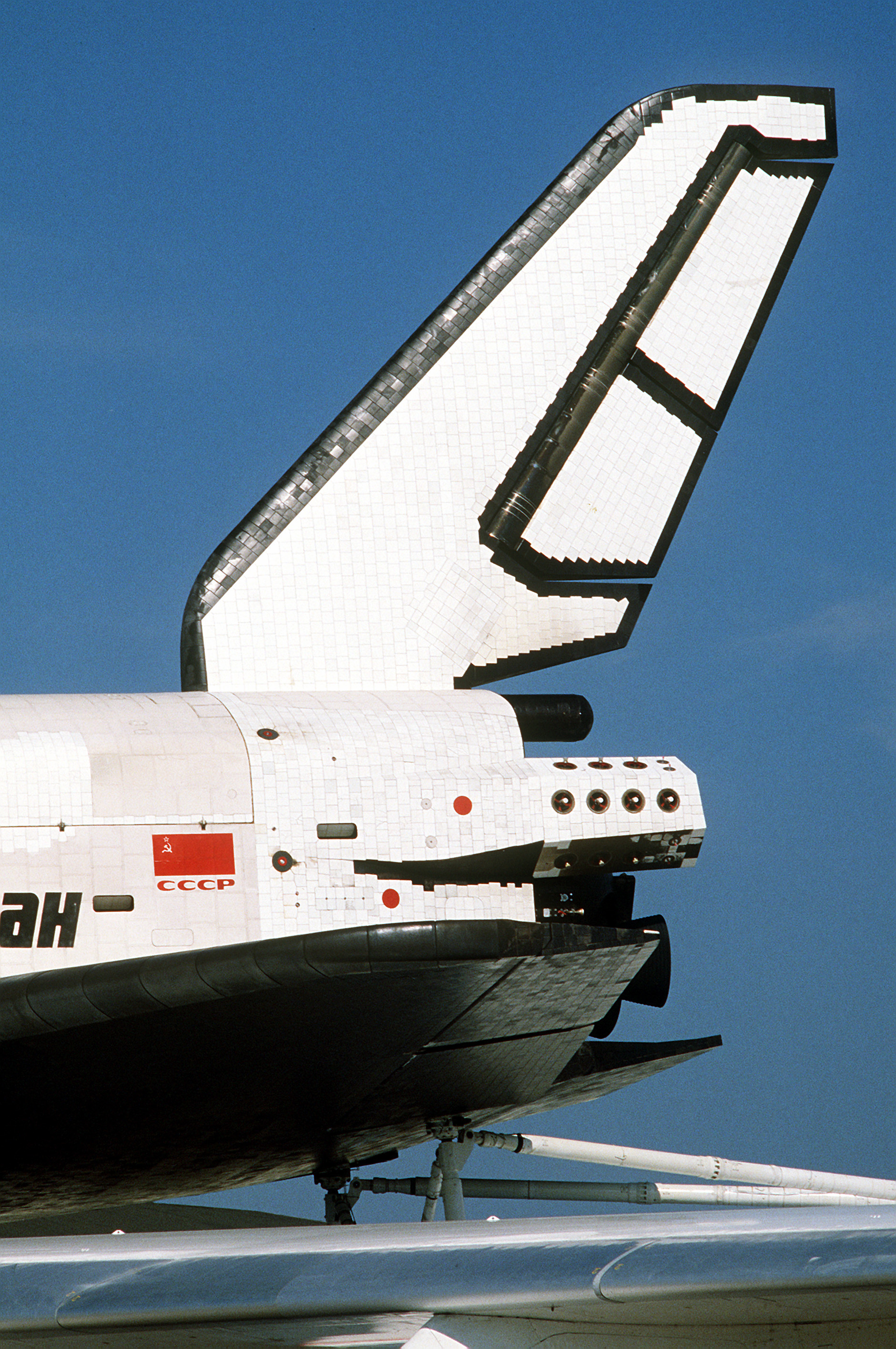 A partial left side view of the Soviet space shuttle Buran atop an An-225 Mechta aircraft, on display at the 38th Paris International Air and Space Show at Le Bourget Airfield.